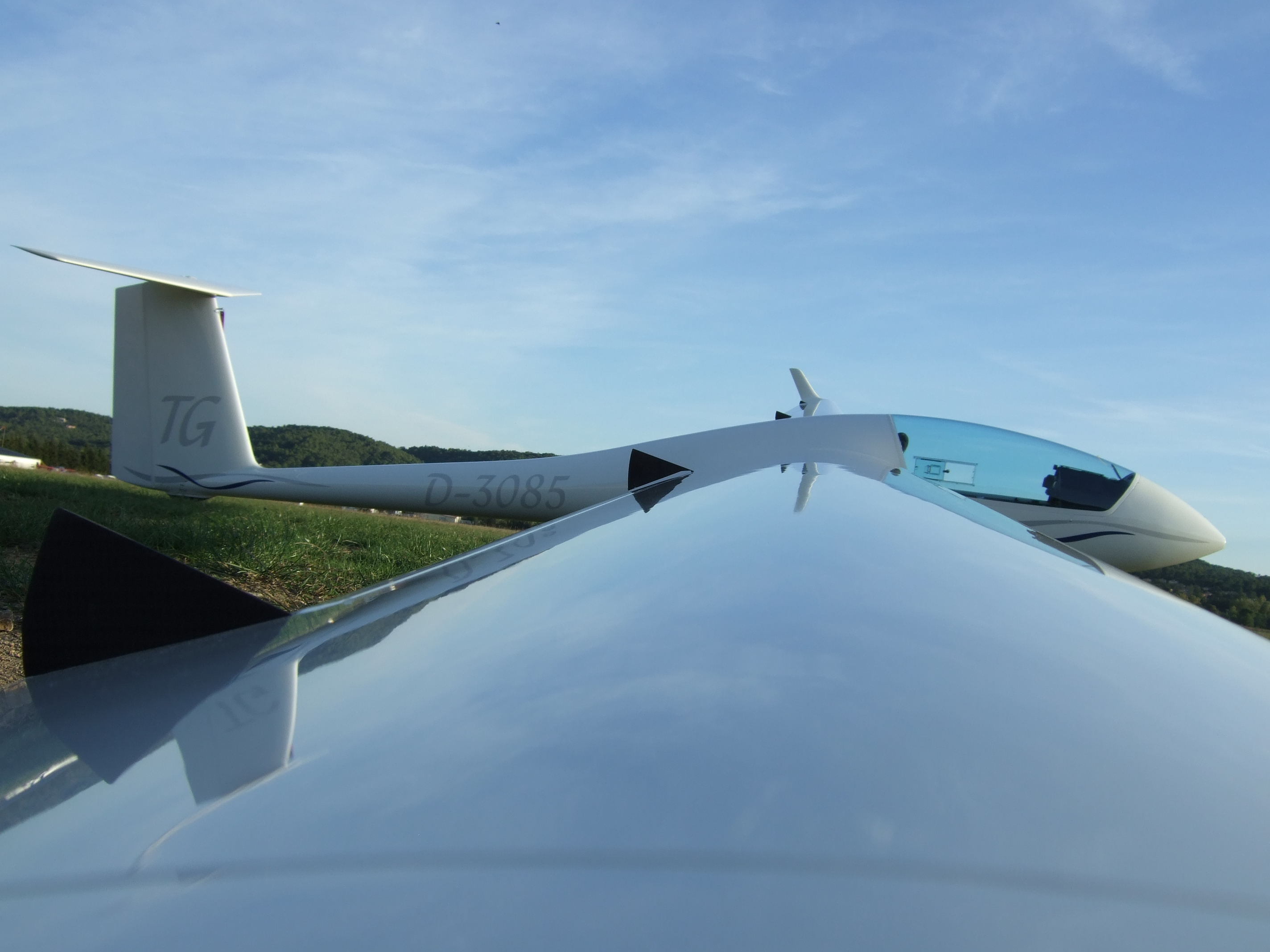 Picture of a Std.-Cirrus 75B with Wingelts and all possible Modifications.